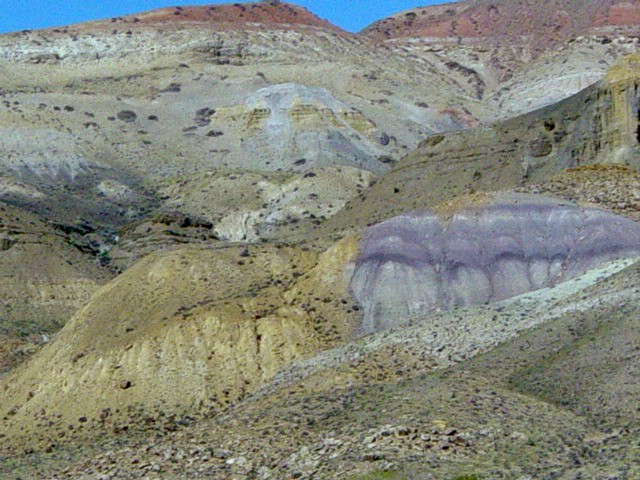 Rock formations in the Great Divide Basin, Wyoming.